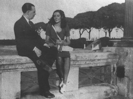 Poet Estela Canto and Borges.